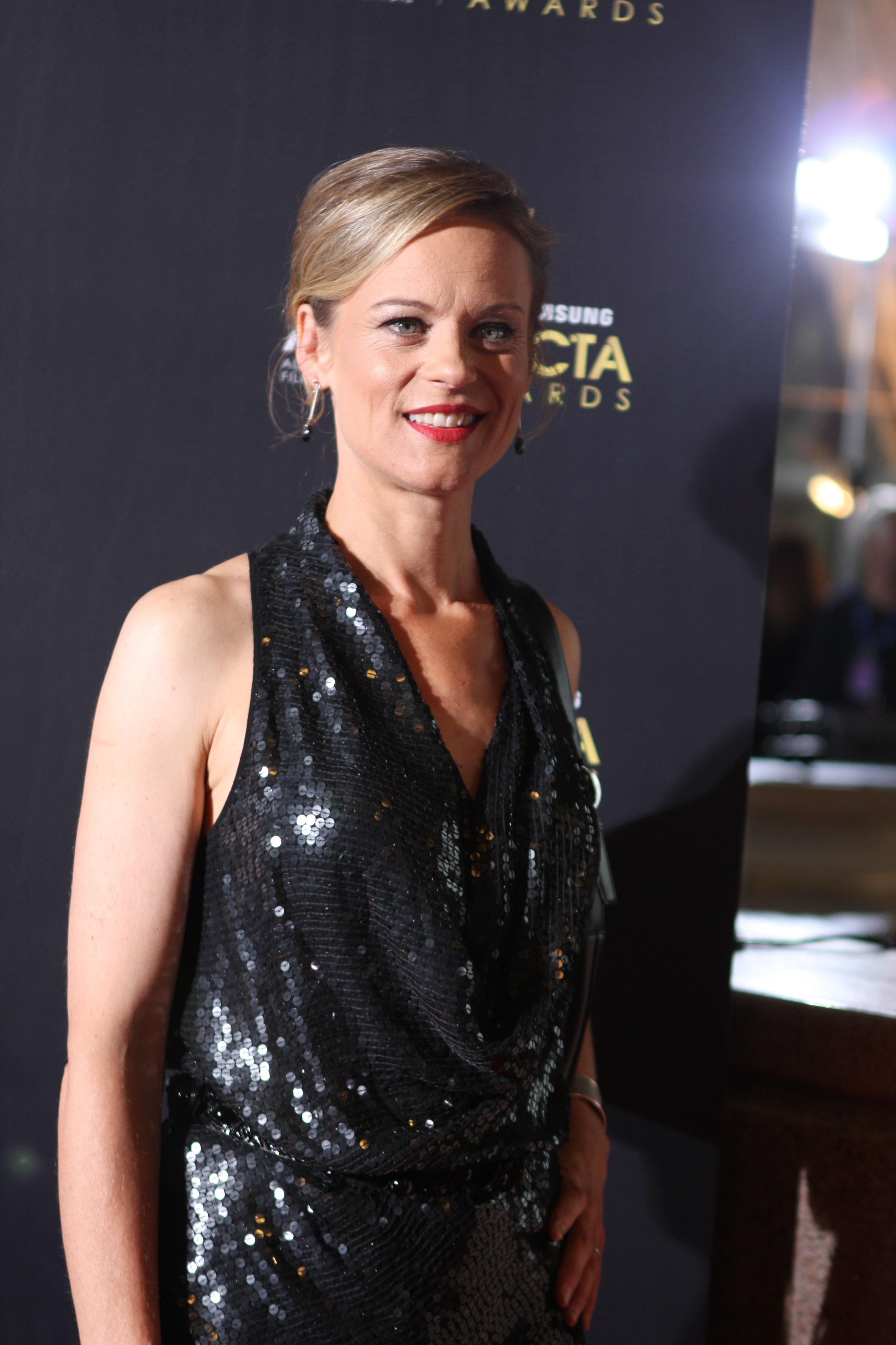 Nadine Garner at the AACTA Awards in Sydney, Australia